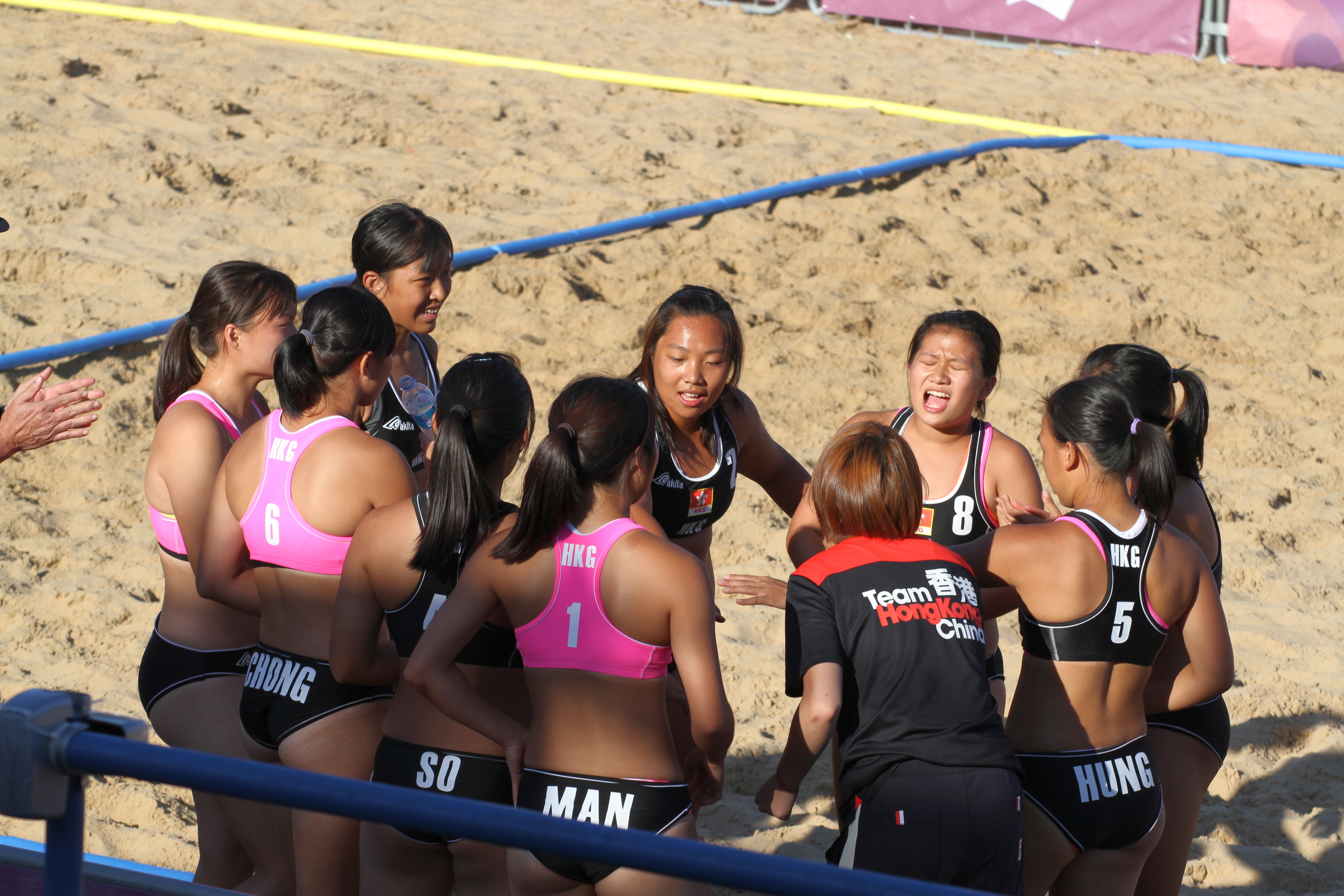 Beach handball at the 2018 Summer Youth Olympics at 9 October 2018 – Girls Preliminary Round Group B – Argentina-Hing Kong 2:0